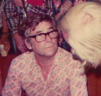 Gene Roddenberry listening to fans after his lecture at the Student Union of the University of Texas at Austin, Austin, Texas, United States